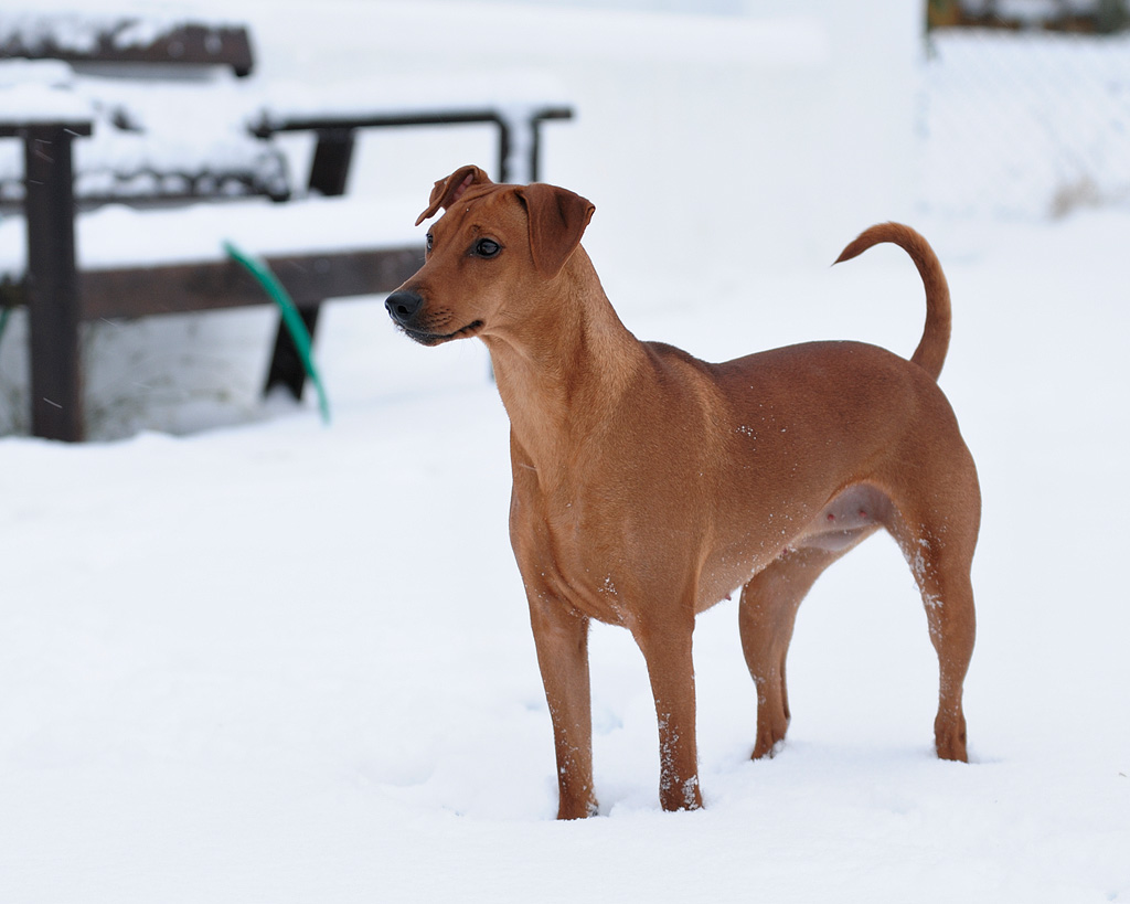 German Pinscher Bitch, Comtessa